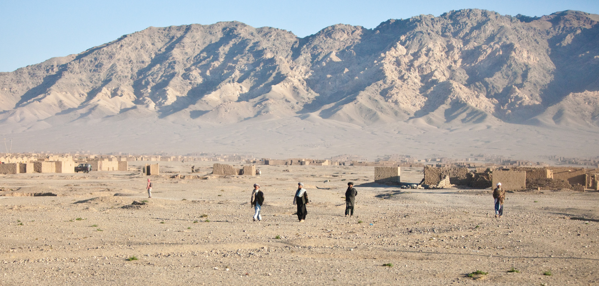 Landscape and village, Herat Province, Afghanistan